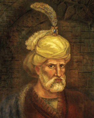 King Teimuraz I